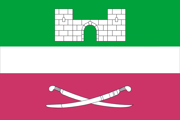 Shcherbinovsky rayon (Krasnodar krai), flag